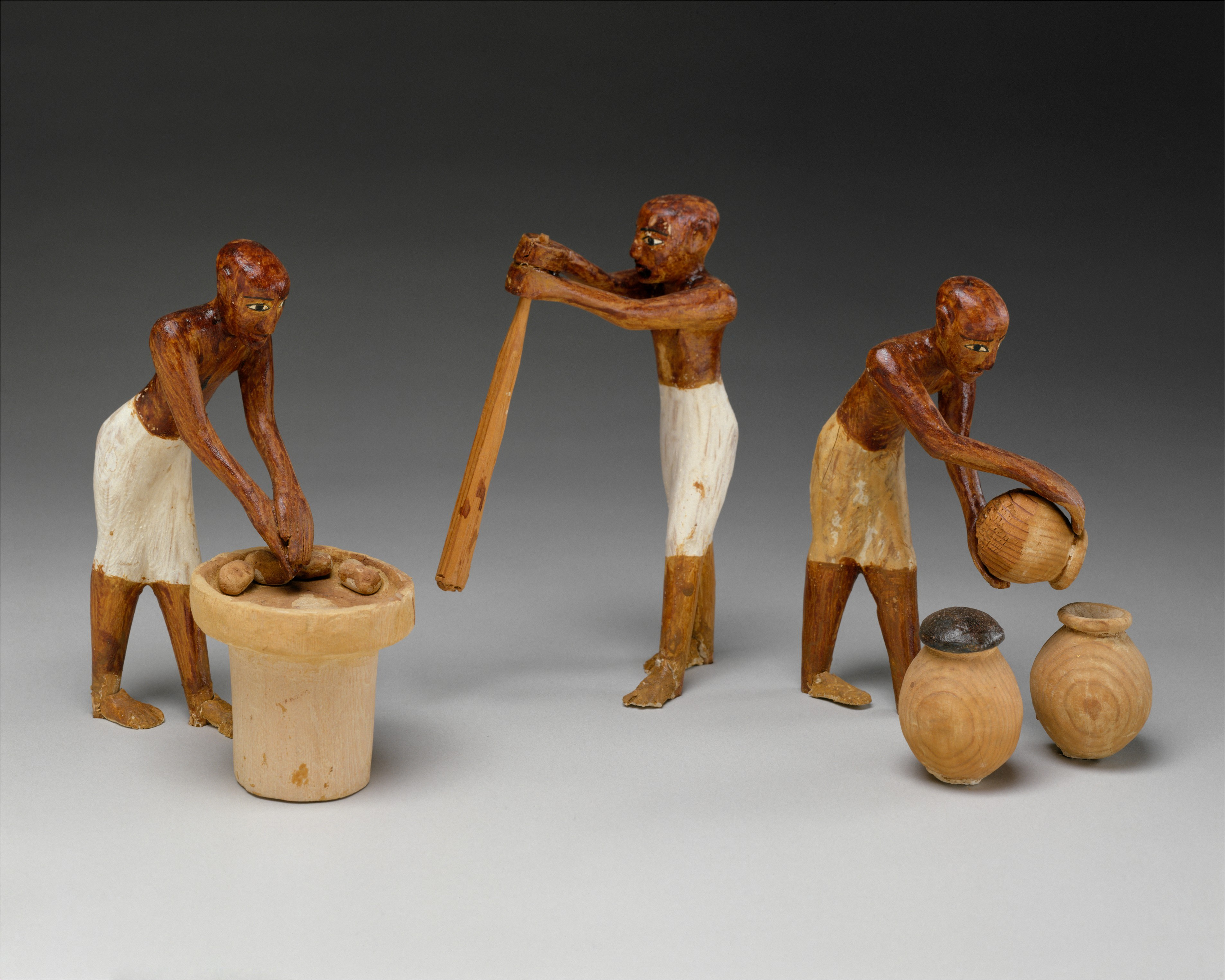 Bakery, brewery, Meketre